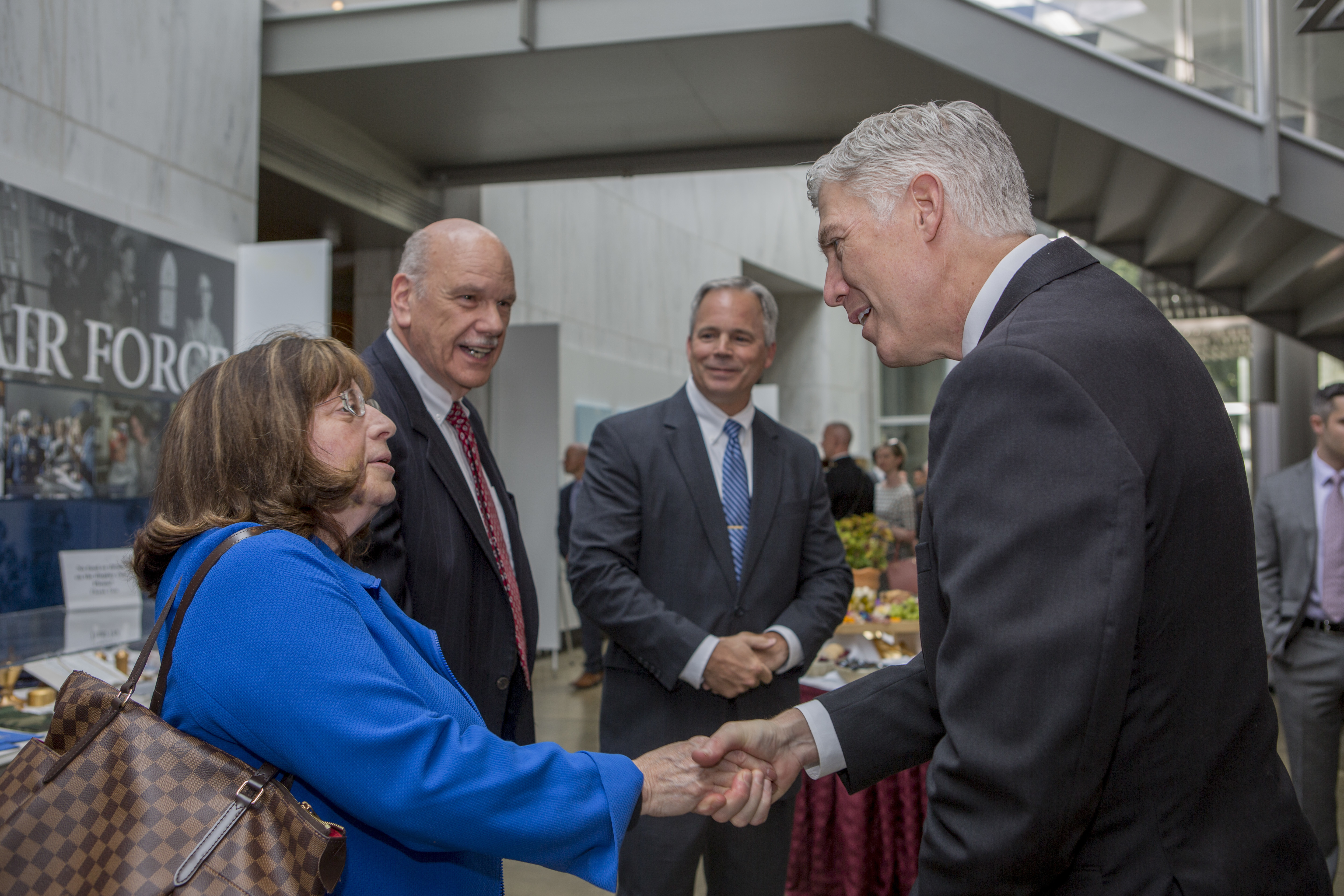 From left, The Honorable Judge Marian Blank Horn, U.S. Court of Federal Claims; Robert Horn, partner, Husch Blackwell's Energy and Natural Resources Group; Robert D. Hogue, counsel for the commandant of the Marine Corps and The Honorable Neil M. Gorsuch, associate justice of the Supreme Court of the United States interact during a sunset parade reception at the Women in Military Service for America Memorial, Arlington, Va., June 6, 2017. Sunset parades are held as a means of honoring senior officials, distinguished citizens and supporters of the Marine Corps. (U.S. Marine Corps photo by Lance Cpl. Paul A. Ochoa)